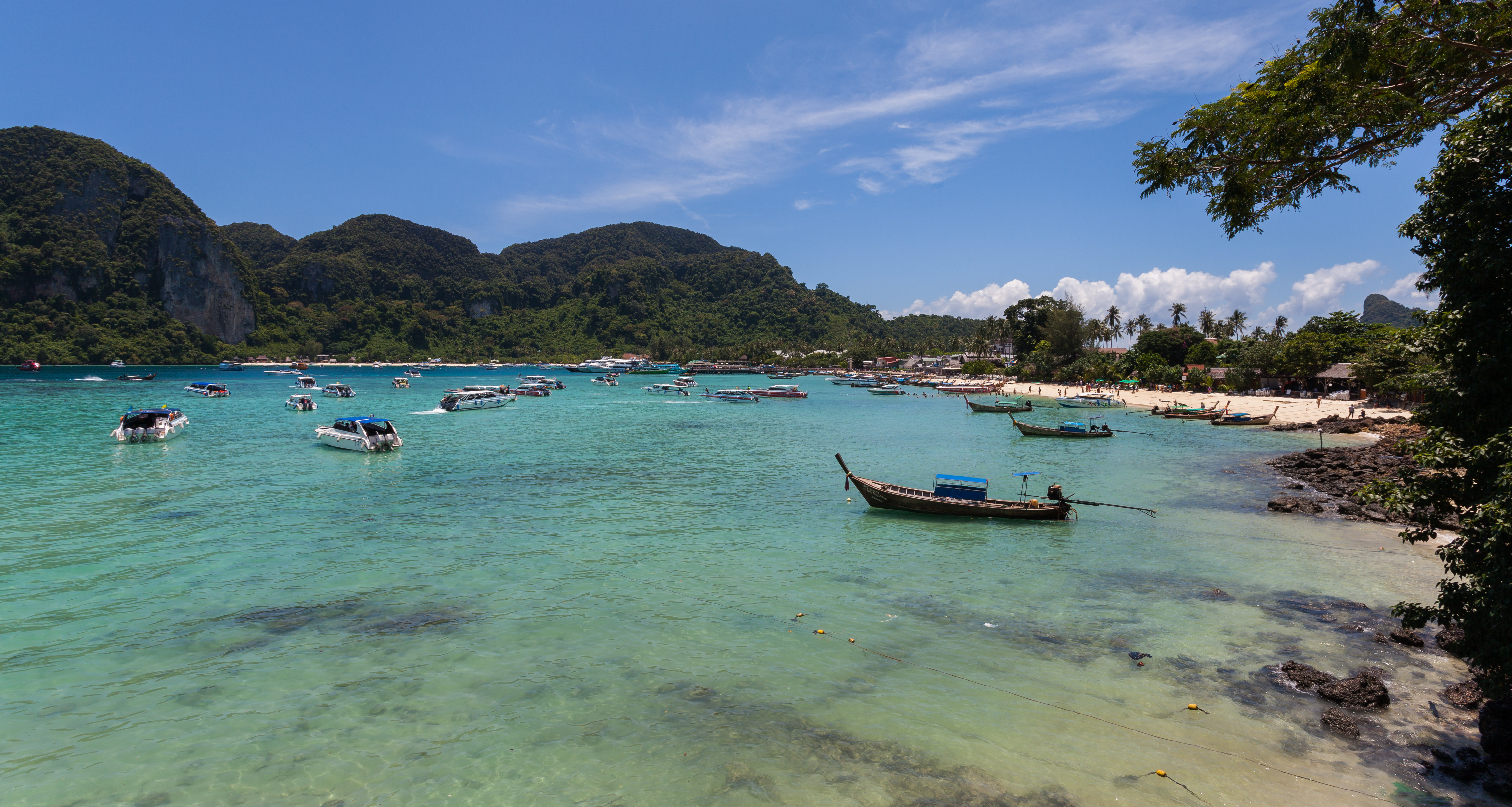 Ko Phi Phi Don Island, Thailand